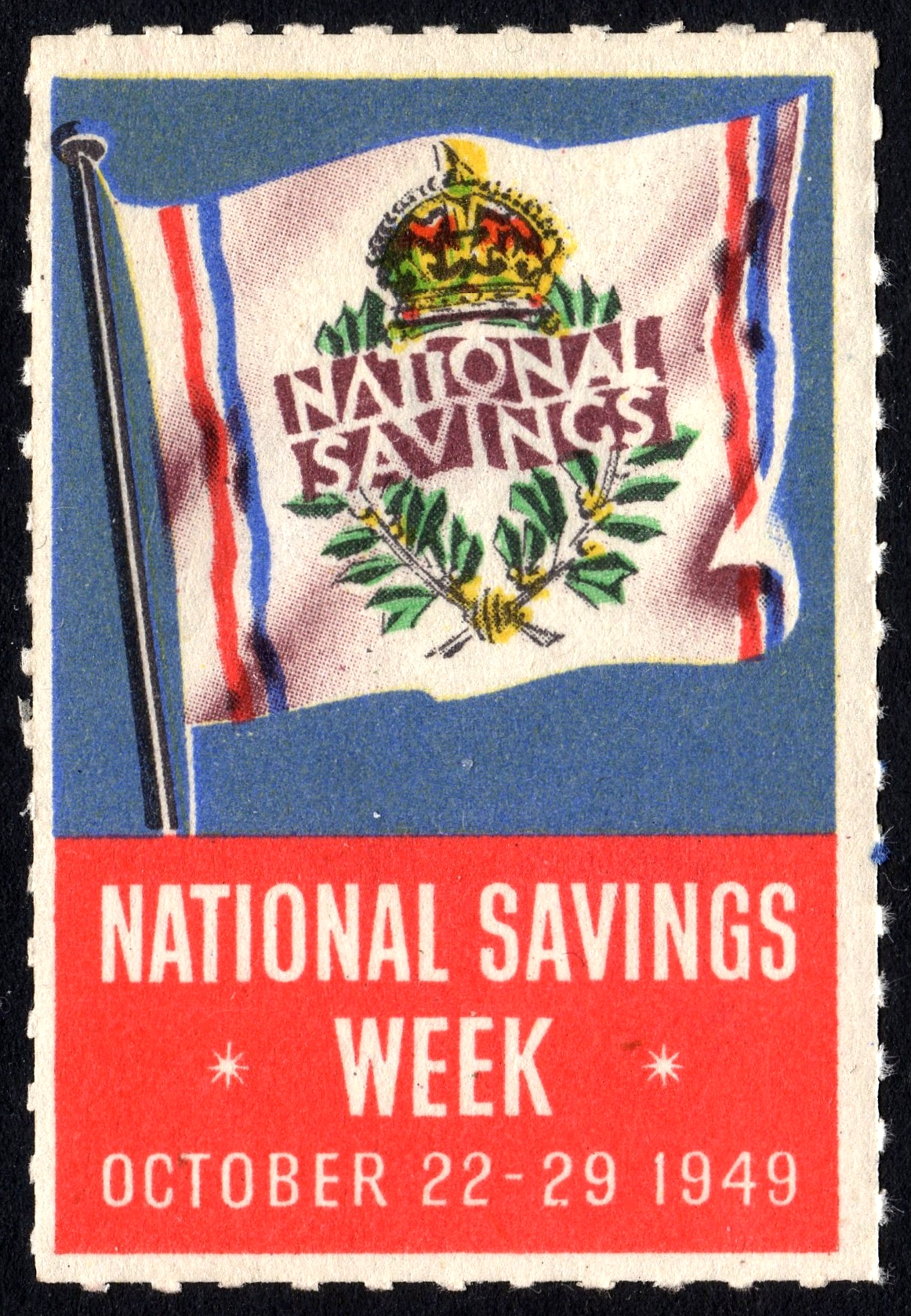 British National Savings Week label 1949.